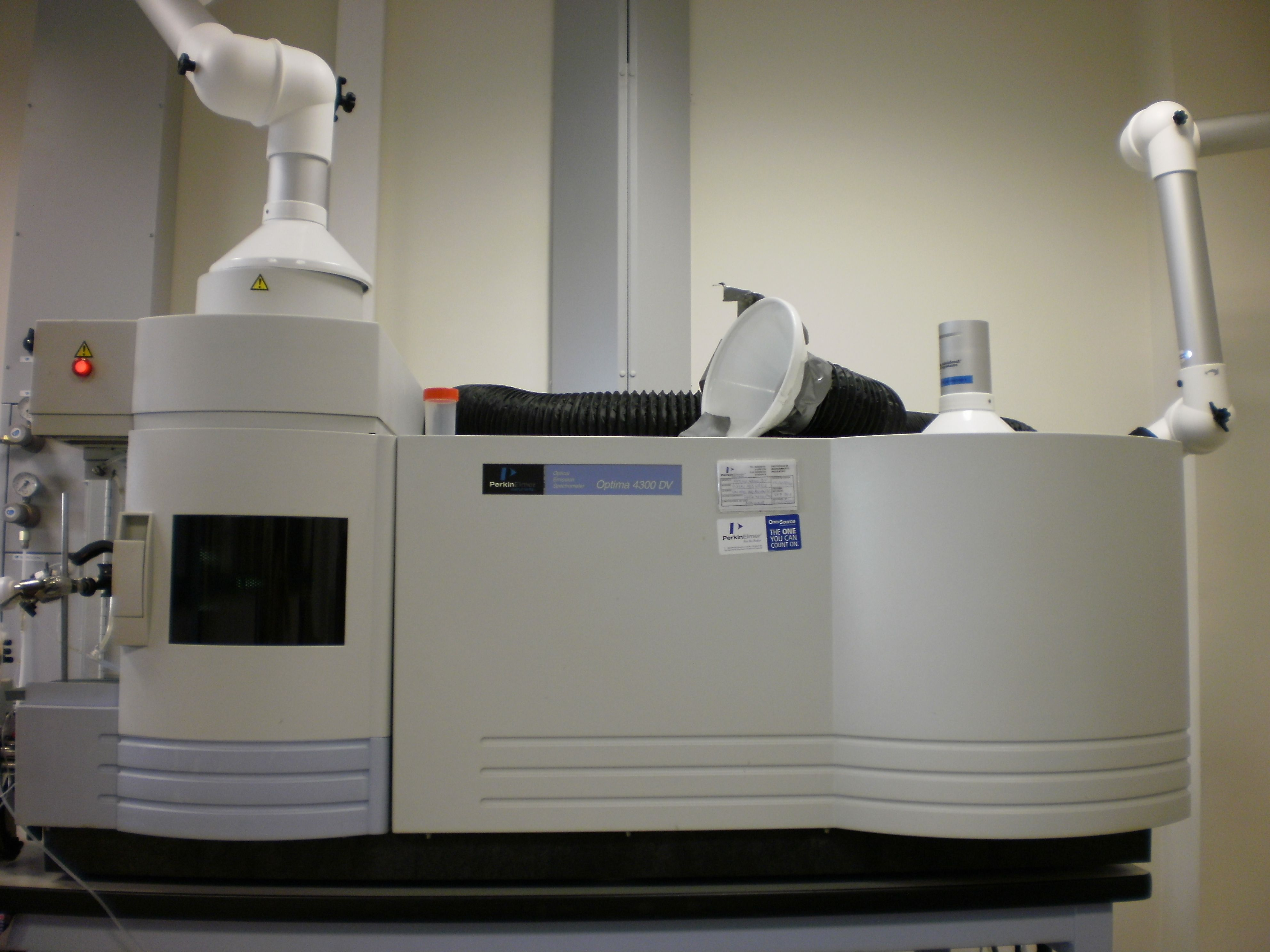 ICP-AES by PerkinElmer